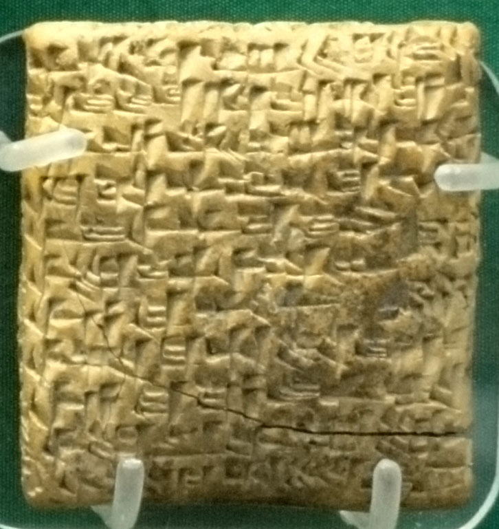 Clay cuneiform tablet with grant from King Niqmepa to Qabia. Dated 1550BC-1400BC.